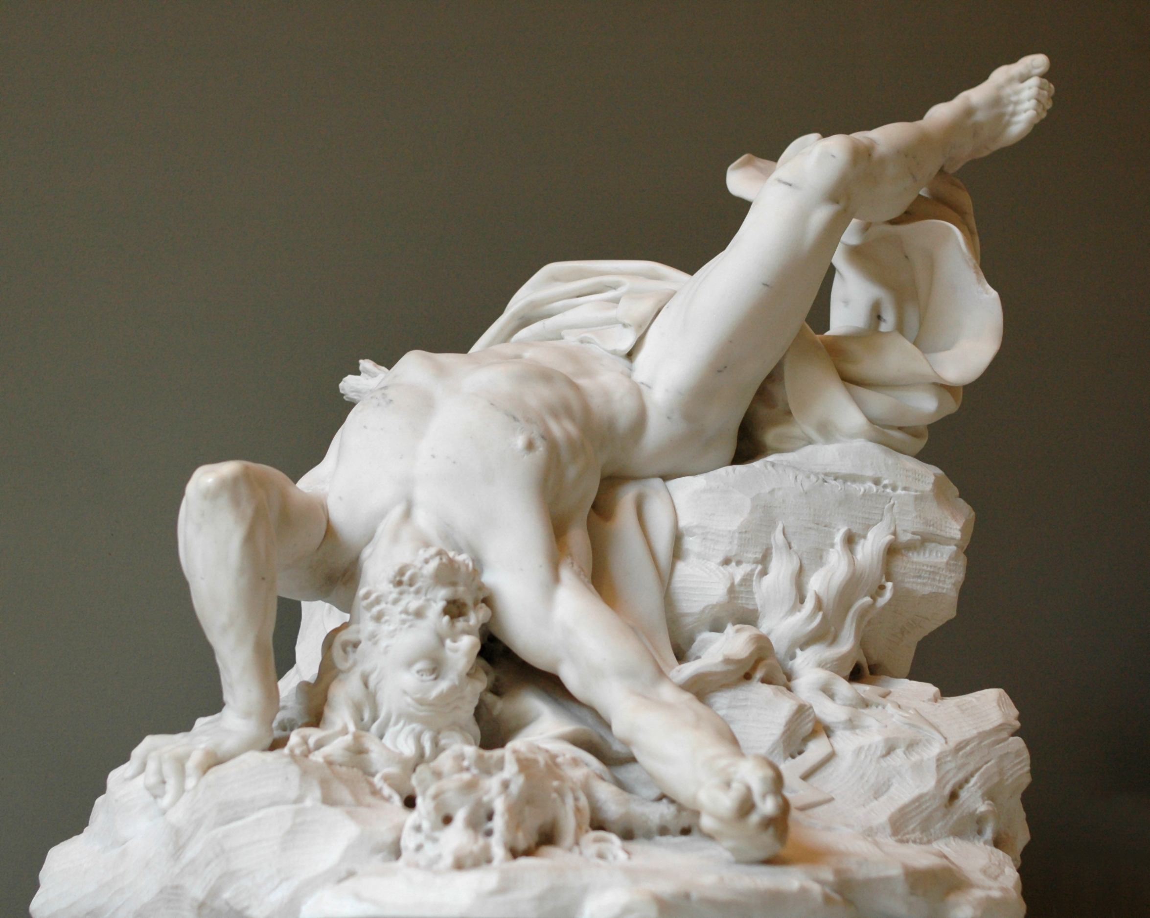 Titan foudroyé (Titan struck by lightning), marble, reception piece for the French Royal Academy, 1712.